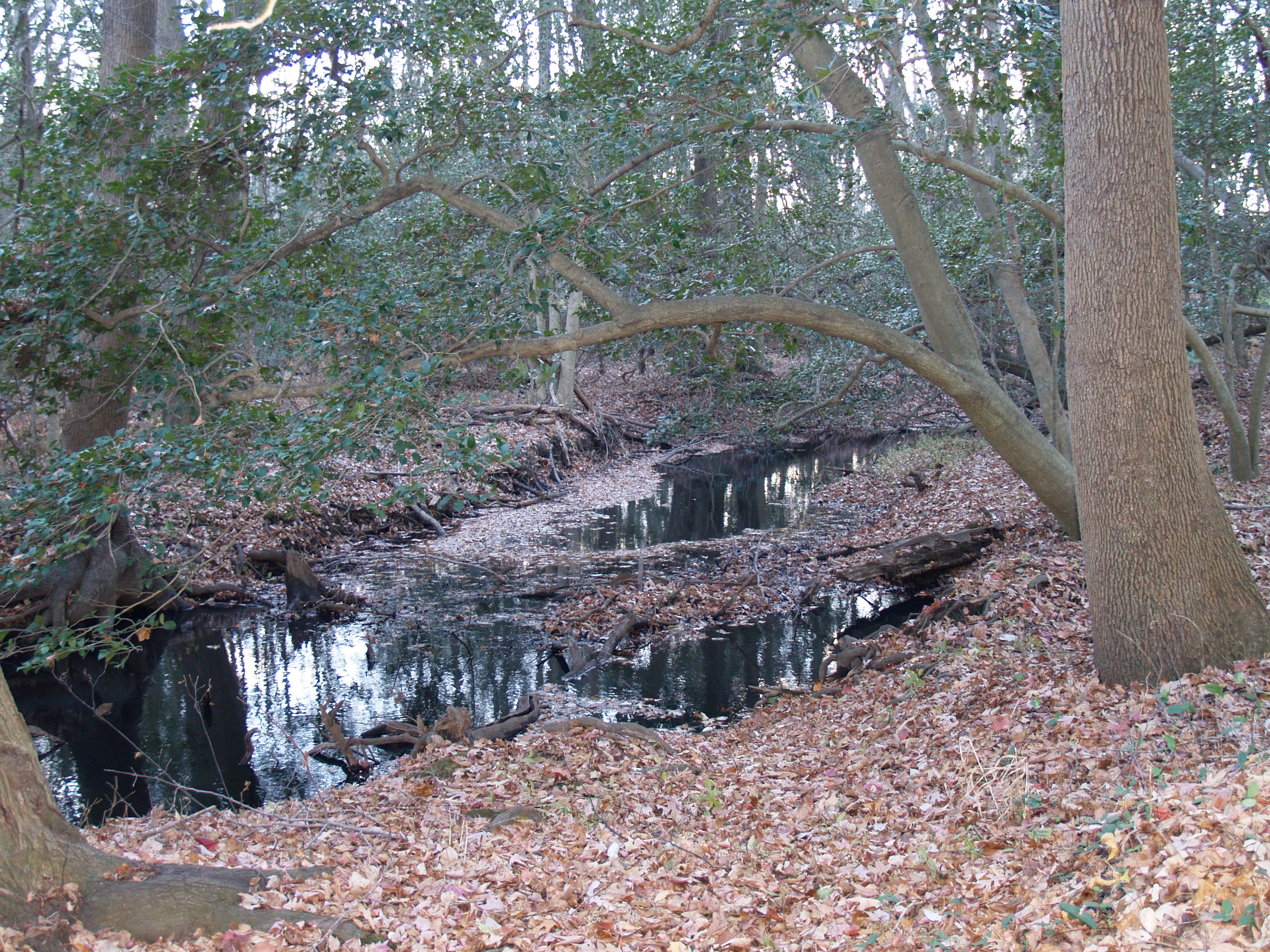 Upper Iron Branch in Sussex County, Delaware